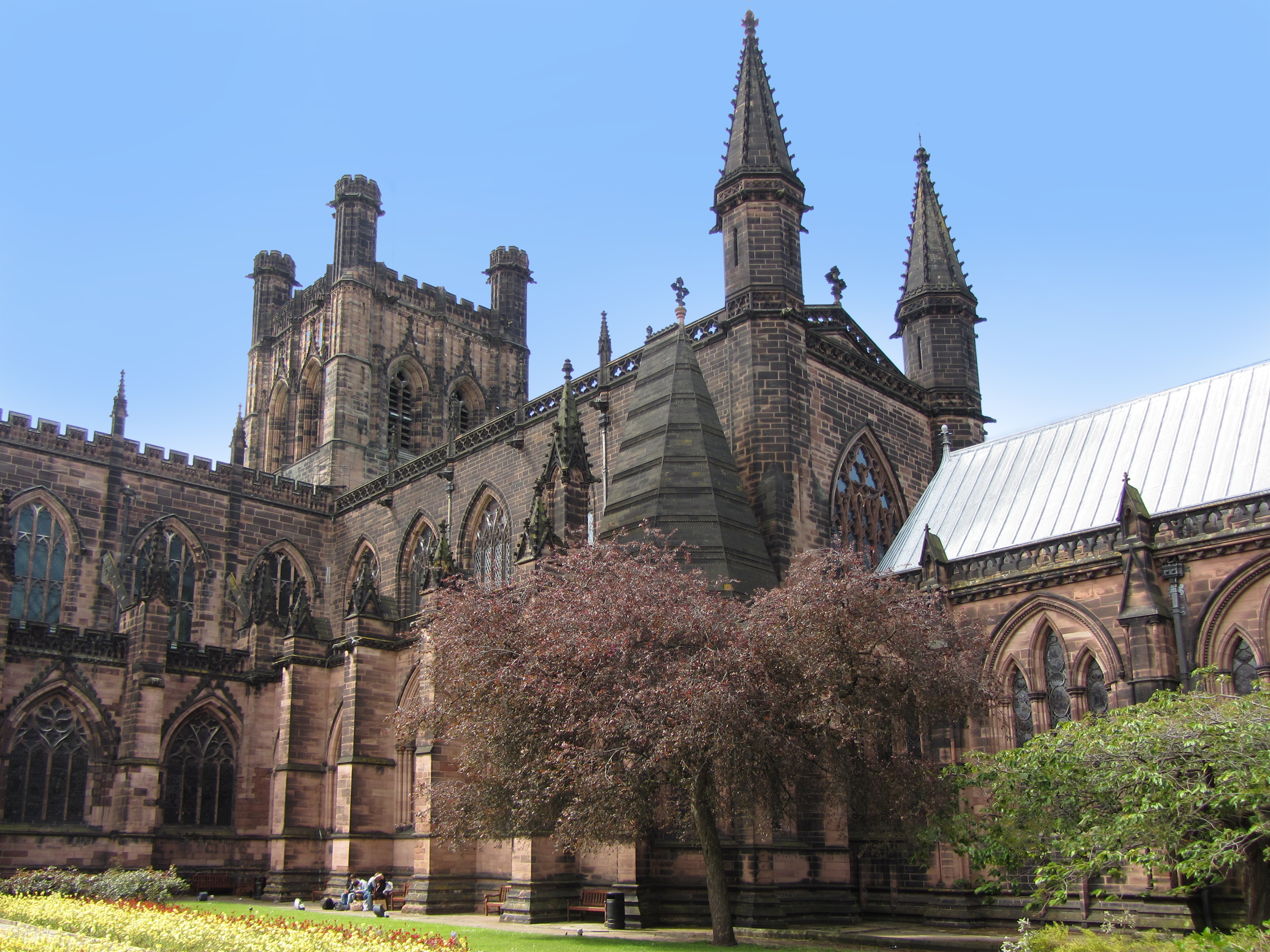 Chester Cathedral, England. The cathedral seen from the south-east looking towards the choir, right, with the Lady Chapel projecting, extreme right, and the south transept, left. The Lady Chapel is in the Early English (or Lancet) Gothic style, marked by the simple windows. The choir is in the late Geometric Decorated Gothic style. The South transept has Flowing Decorated windows in the aisle, and Perpendicular Gothic windows in the clerestory. The friable Red Sandstone building was heavily restored in the 19th century.